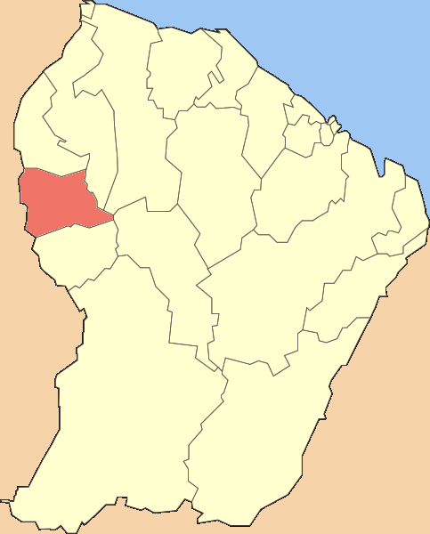 Grand-santi